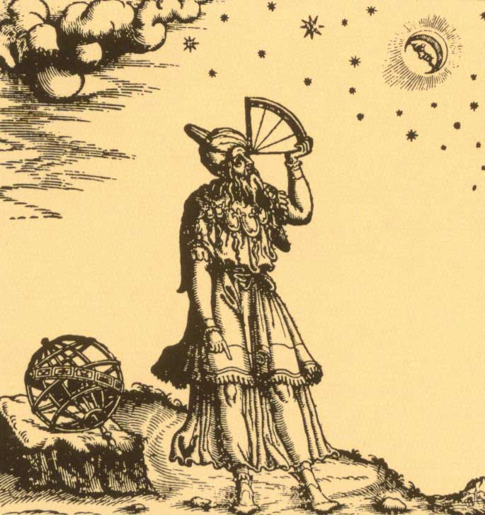 Ptolemy from "CLAVDIO TOLOMEO PRINCIPE DE GLI ASTROLOGI, ET DE GEOGRAFI" published by Giordano Ziletti